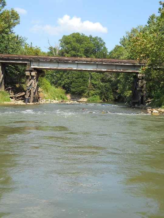 A view of the CSX railroad bridge crossing the middle fork of the Obion River in West TN